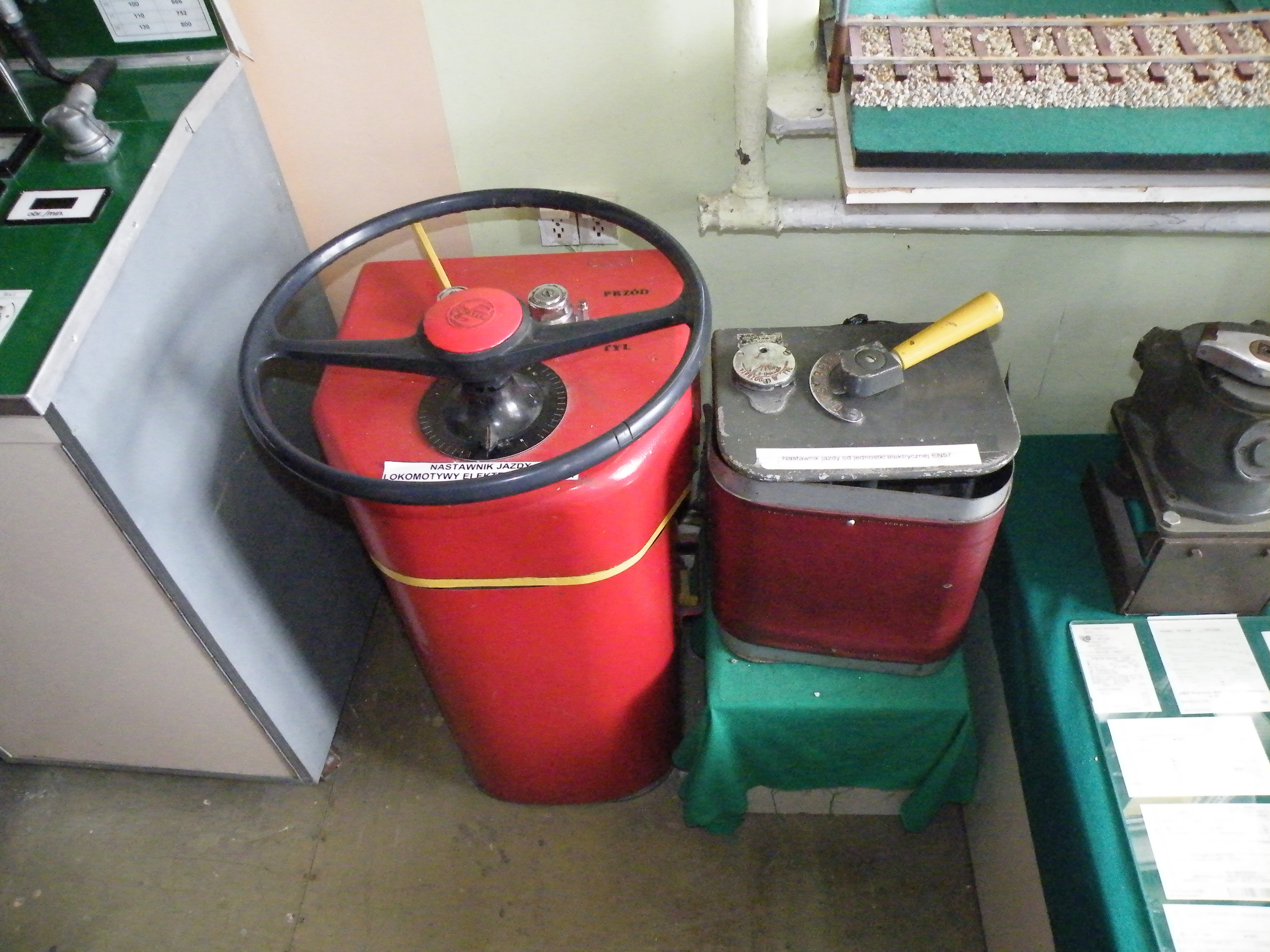 Alignment gauge of electric locomotive PKP class EU07 (left) and EMU PKP class EN57 (right) in Izba Tradycji Bydgoskich Dróg Żelaznych